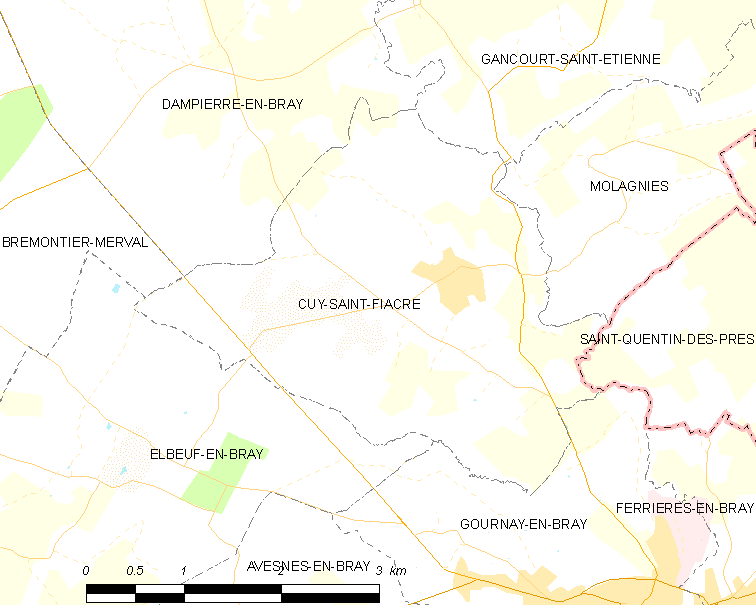 Map of French municipality Cuy-Saint-Fiacre